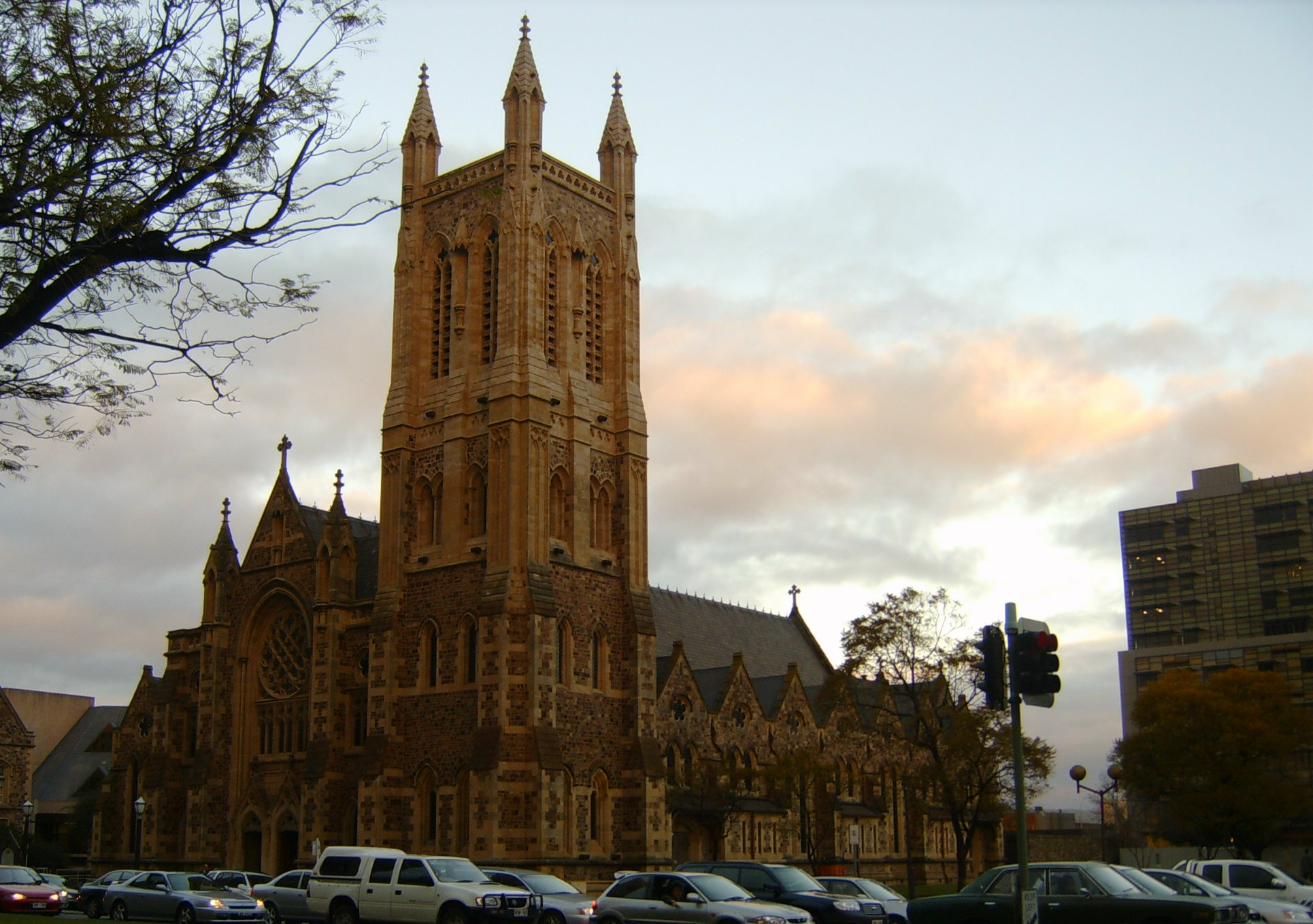 Author: Carlos Eduardo Hernández Castillo I released the picture to the public domain